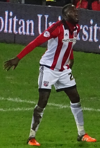 Toumani Diagouraga, Brentford footballer, during a match against Cardiff City.